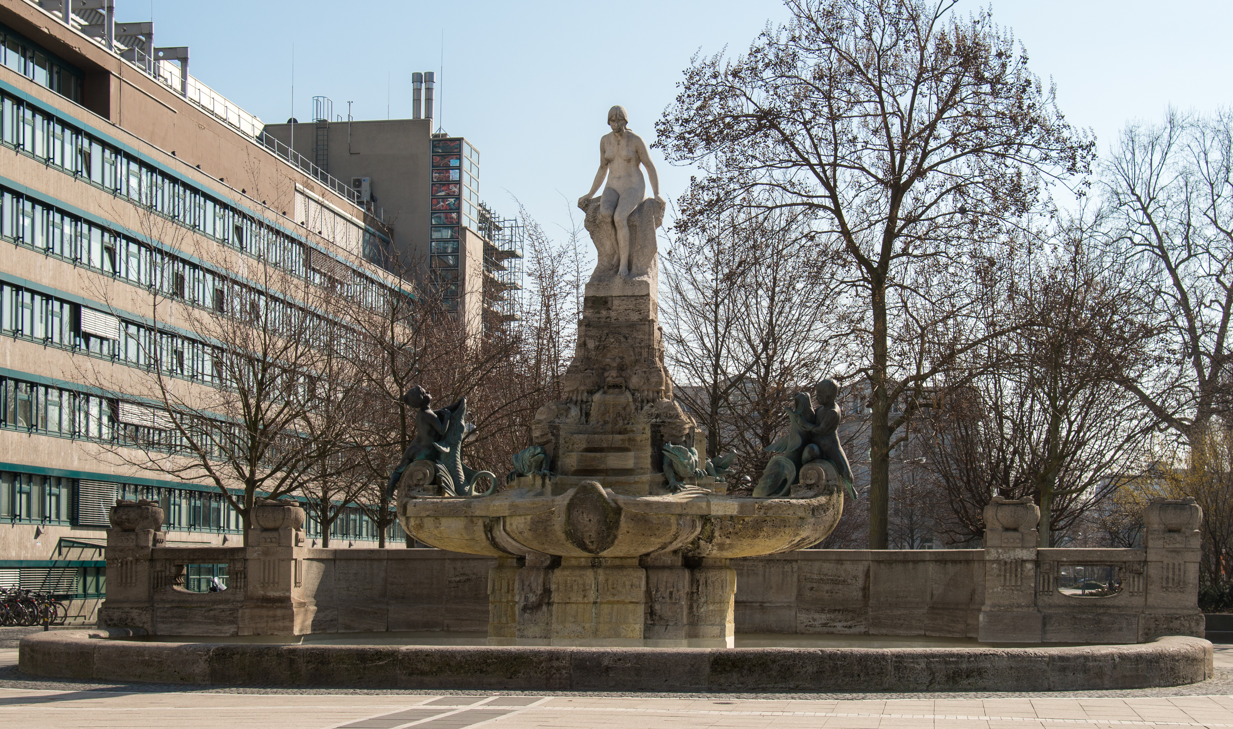 Frankfurt am Main, Märchenbrunnen ("Fairy tale" fountain) in the Untermainanlage. Cultural monument of the city.